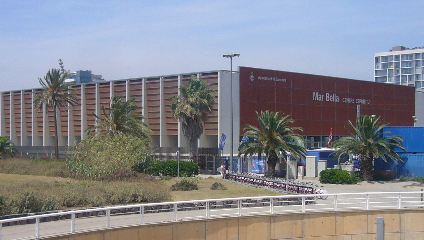 Mar Bella Centre Esportiu (Barcelona)